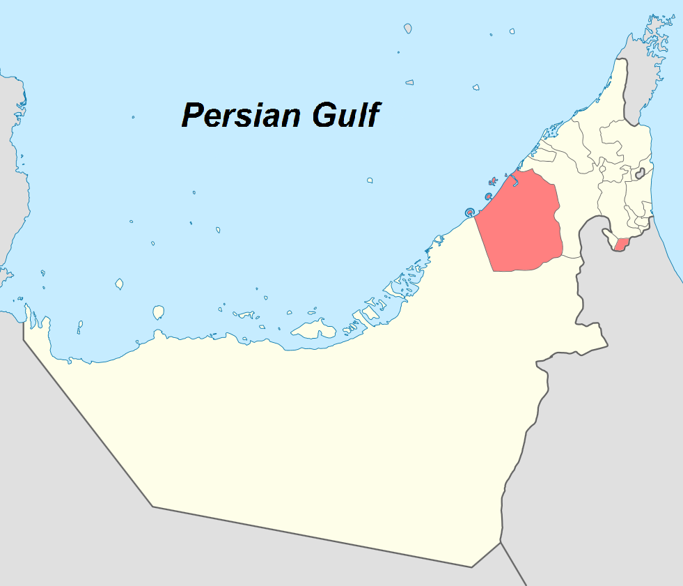 Dubai in Persian Gulf